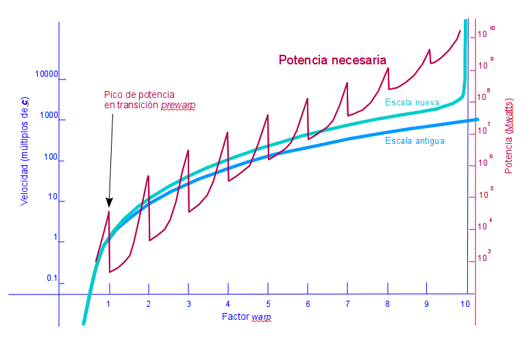 New scale for warp factor equivalences